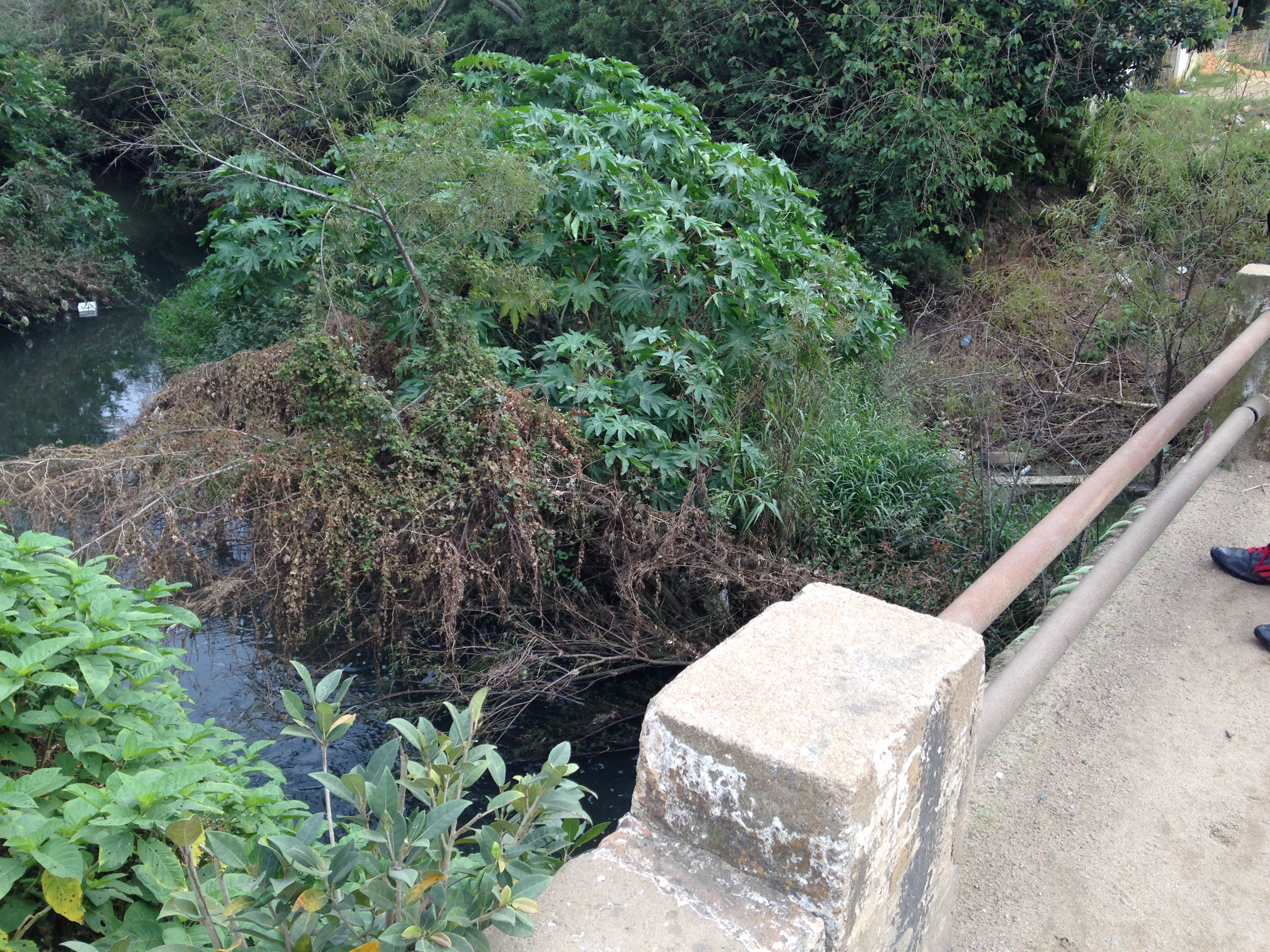 Bridge on Arroio do Salso, a creek in Porto Alegre - Juca Batista Avenue section